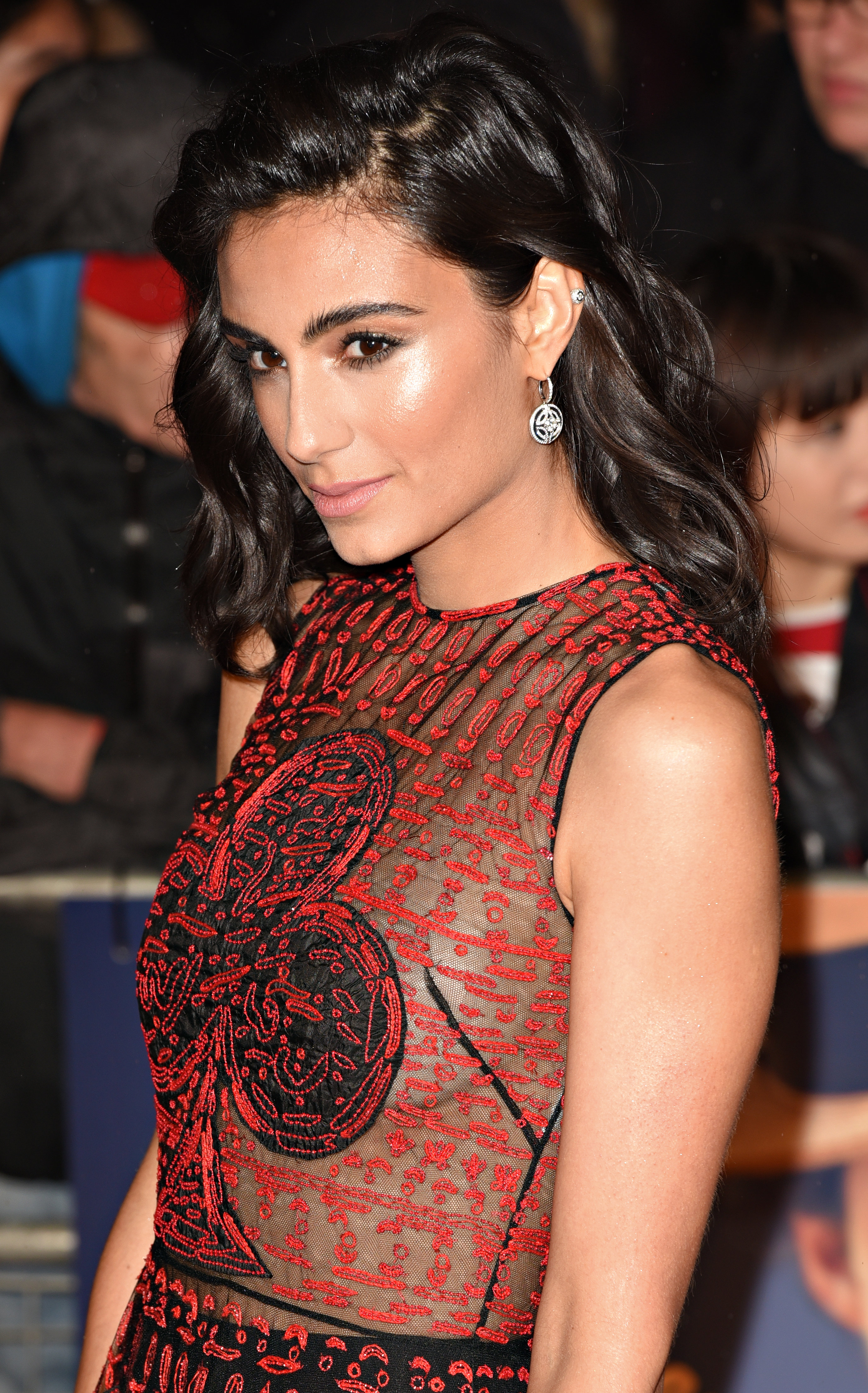 Aiysha Hart